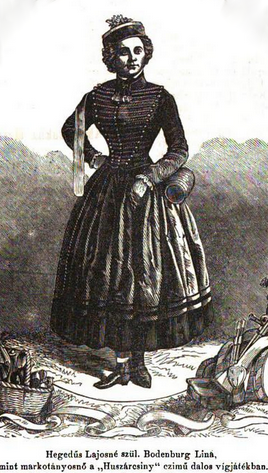 Bodenburg Lina on the stage